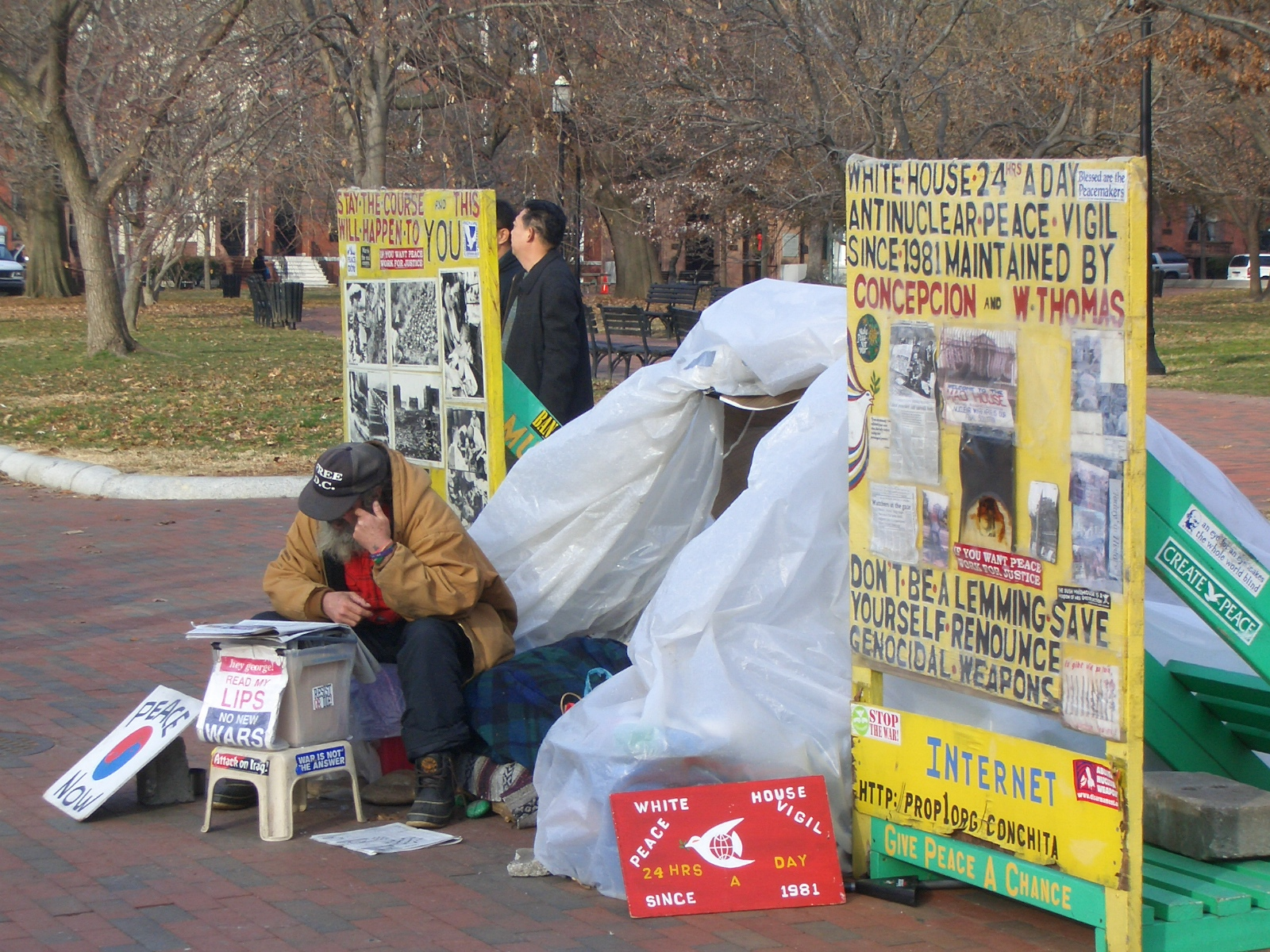 Thomas at the White House Peace Vigil on the 1600 block of Pennsylvania Avenue, Lafayette Square, Washington, D.C.